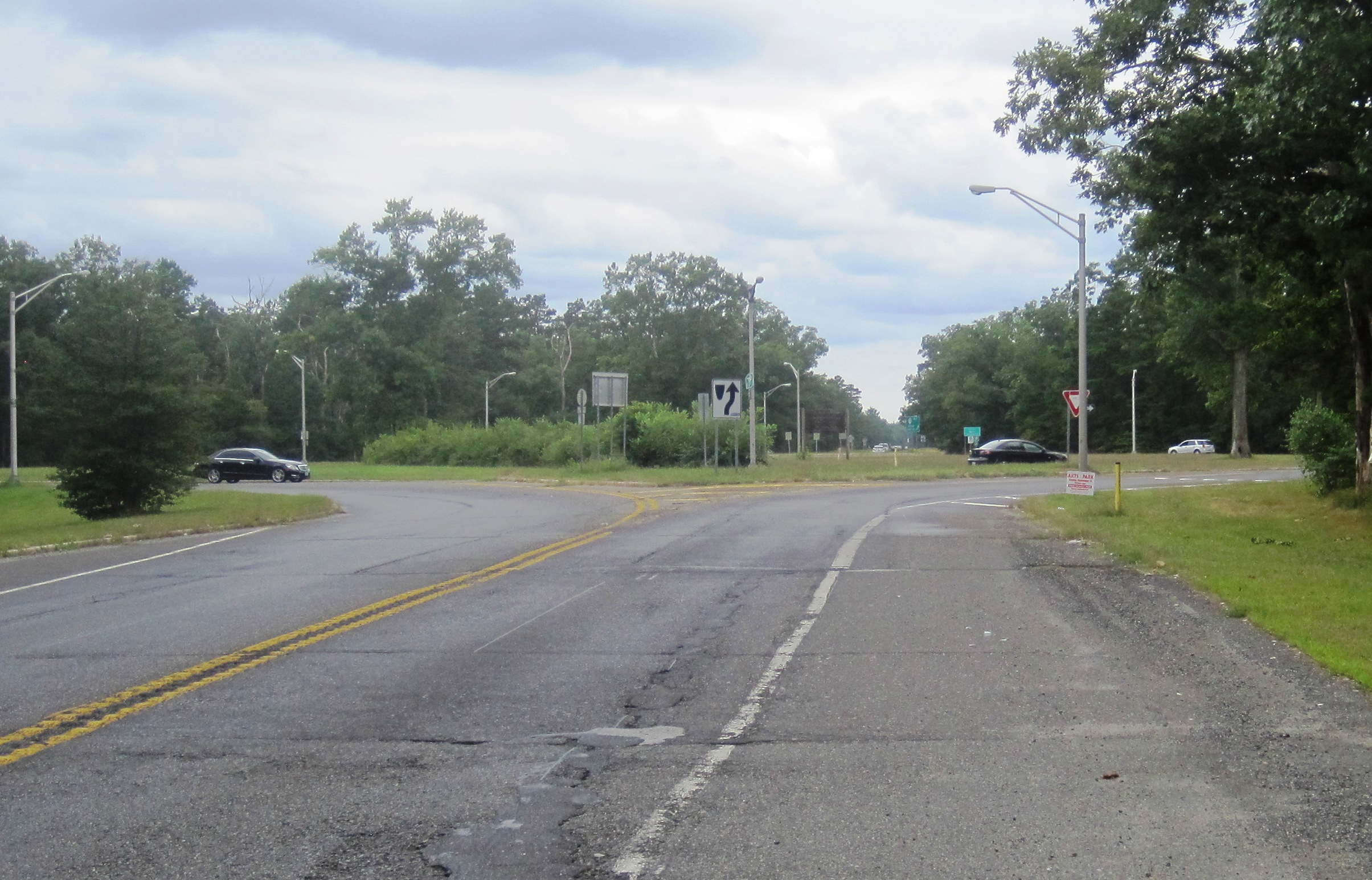 Photo showing the Four Mile Circle as seen from westbound New Jersey Route 70 in Burlington County, New Jersey (located in Pemberton, Southampton, and Woodland townships).